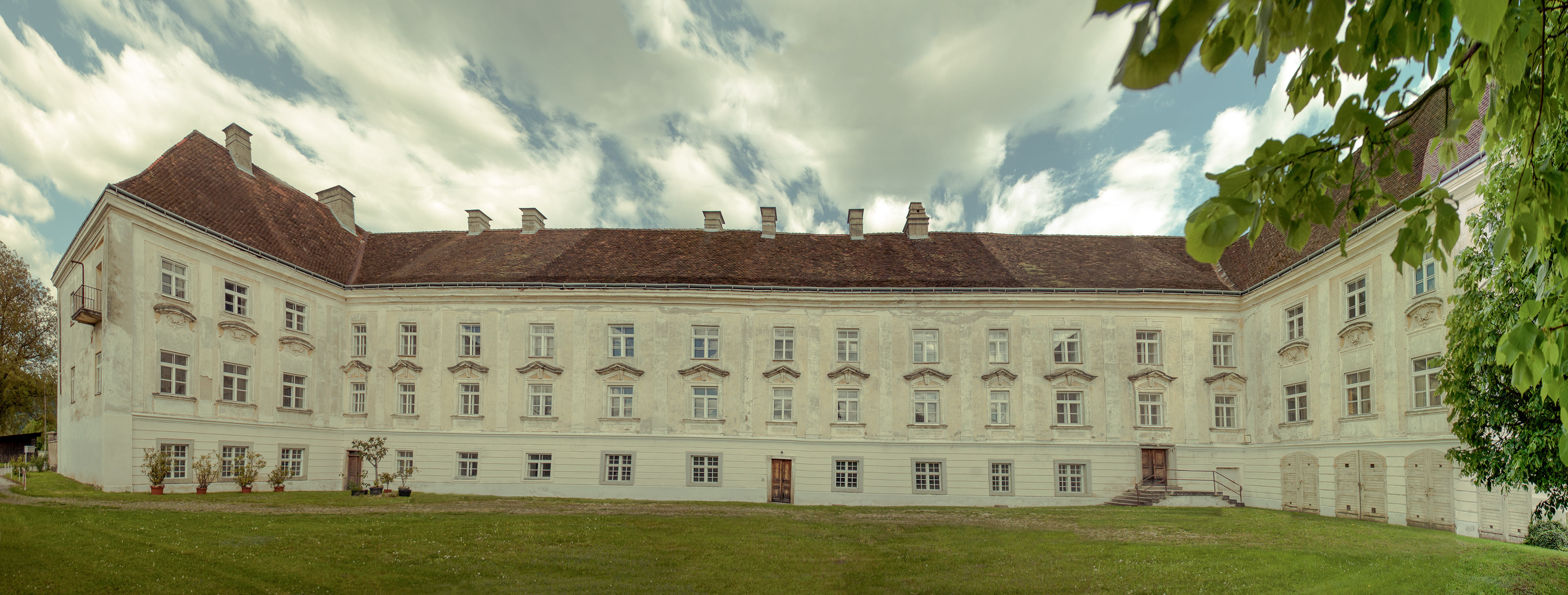 Monastery Säusenstein Facade